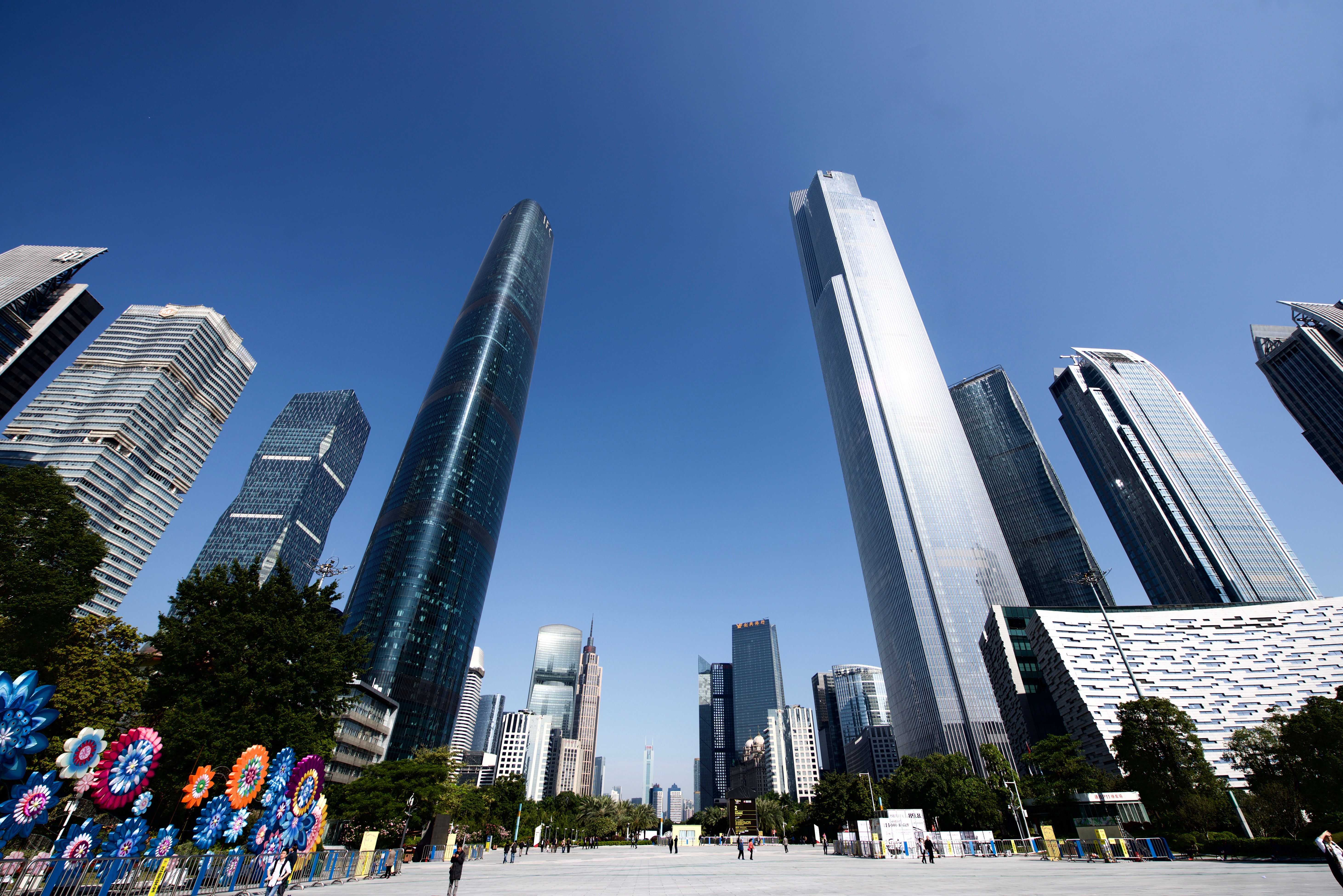 Twin Towers of Guangzhou seen from Haixinsha Island.